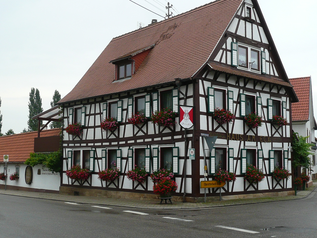 Timber framed house at Niederotterbach